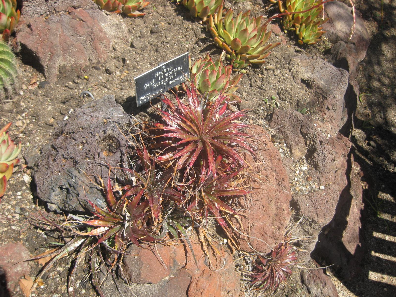 Photographed at Huntington Gardens (Los Angeles) in March